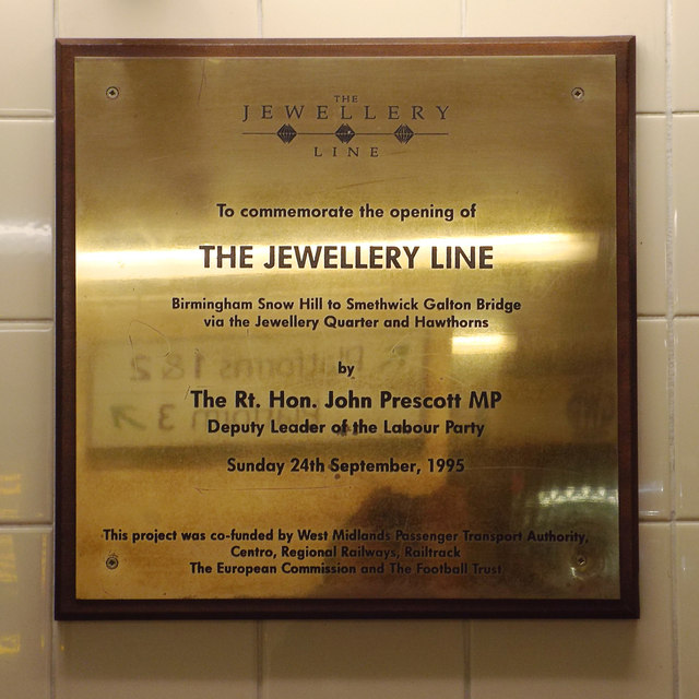 Plaque to mark the opening of the Jewellery Line, Snow Hill Station, Birmingham, 1995 A number of plaques and signs greet the traveller at the top of the stairs and escalators. This one reads: The Jewellery Line To commemorate the opening of The Jewellery Line Birmingham Snow Hill to Smethwick Galton Bridge via the Jewellery Quarter and Hawthorns by The Rt. Hon. John Prescott MP Deputy Leader of the Labour Party Sunday 24th September, 1995 This project was co-funded by West Midlands Passenger Transport Authority, Centro, Regional Railways, Railtrack The European Commission and the Football Trust